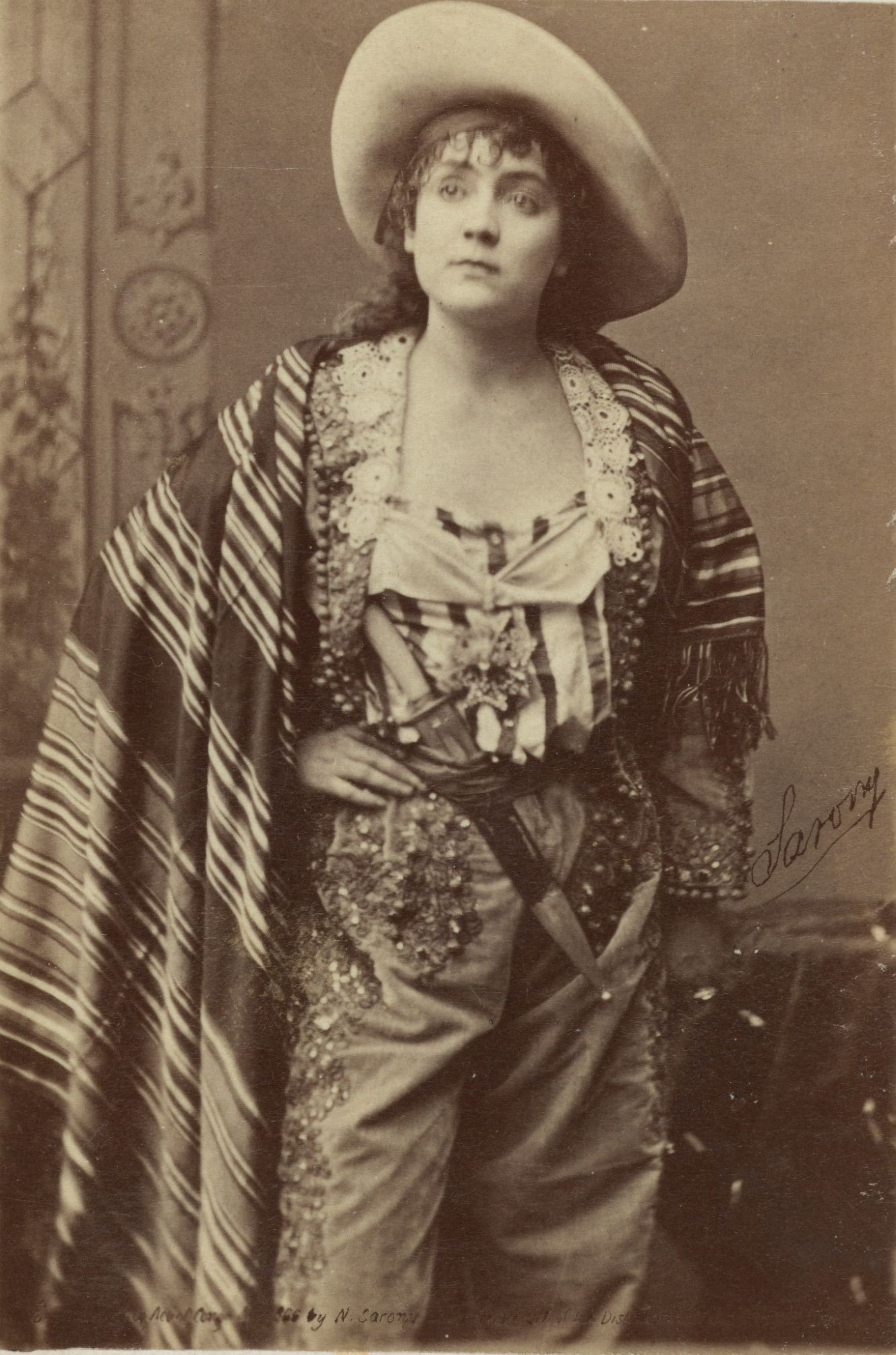 Cabinet card image of actor Adah Isaacs Menken (1835-1868), dated 1866. Cropped from original scan. TCS 19, Harvard Theatre Collection, Houghton Library, Harvard University